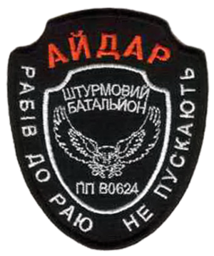 Sleeve patch for the 24th Crack Battalion «Aidar».